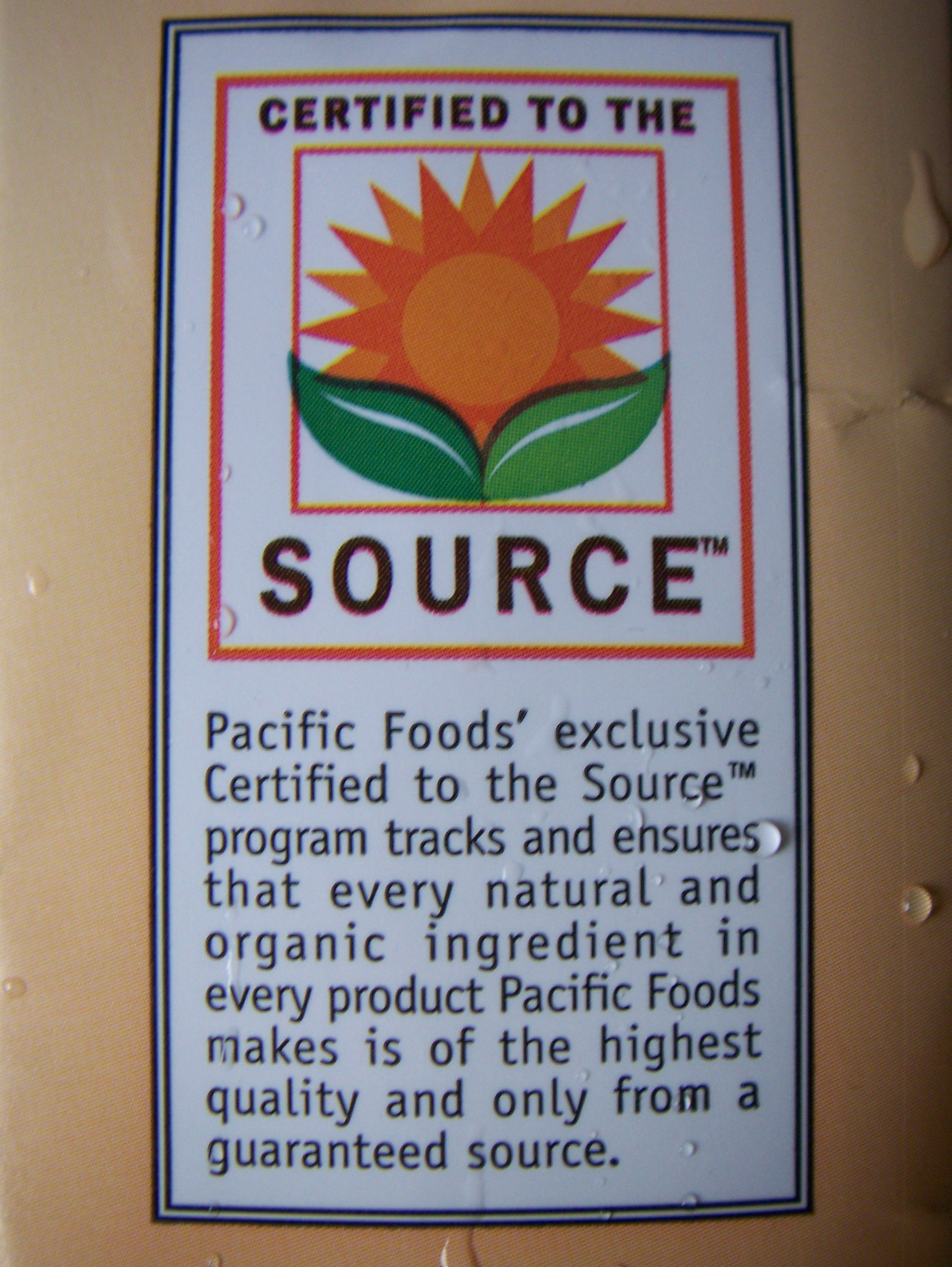 pacific foods says their nut milk is pure